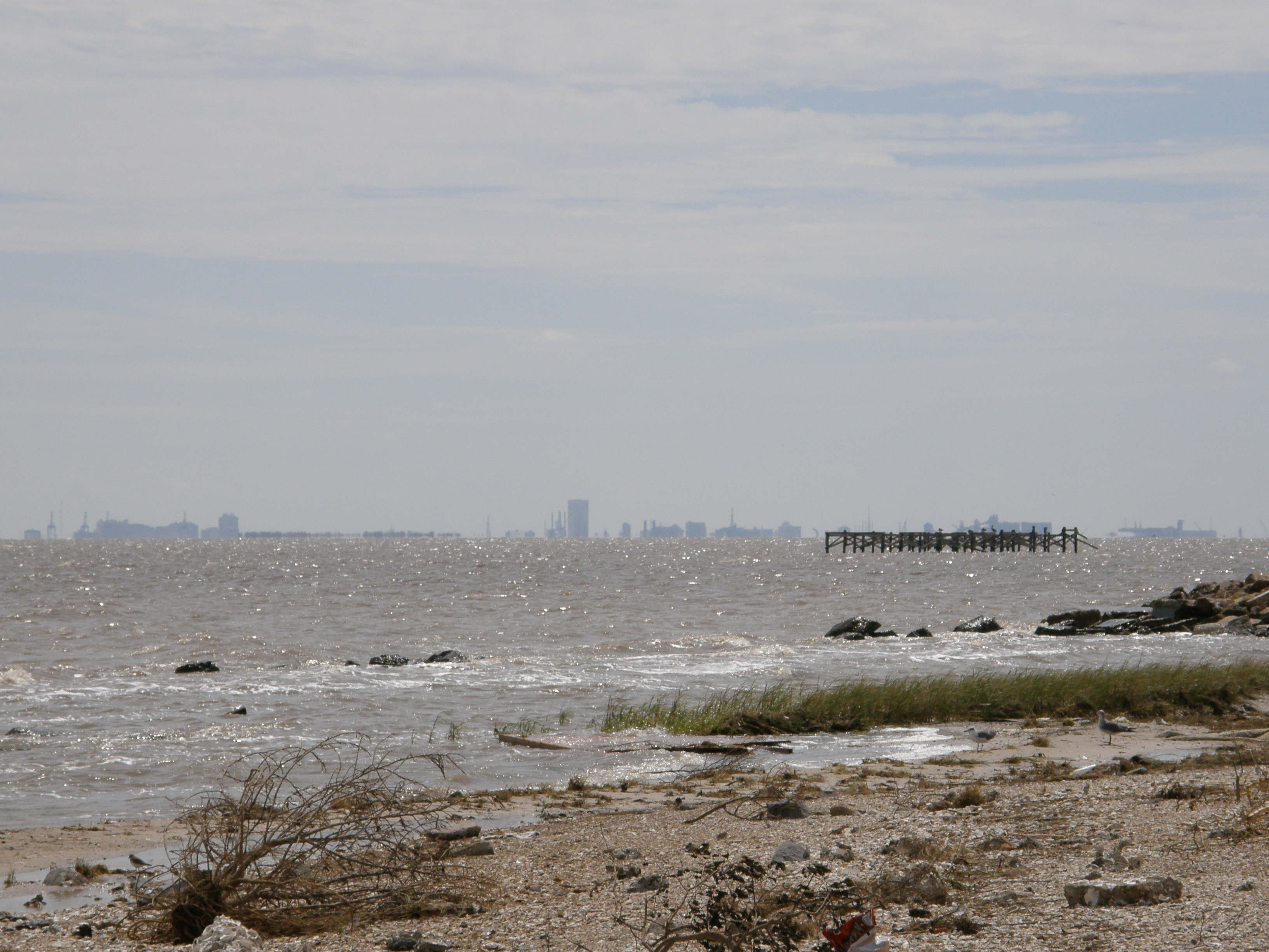 These pictures were taken from the south section of Skyline Drive, which runs along Galveston Bay from the entrance of the Texas City Dike to the big water gate that regulates Moses Lake.